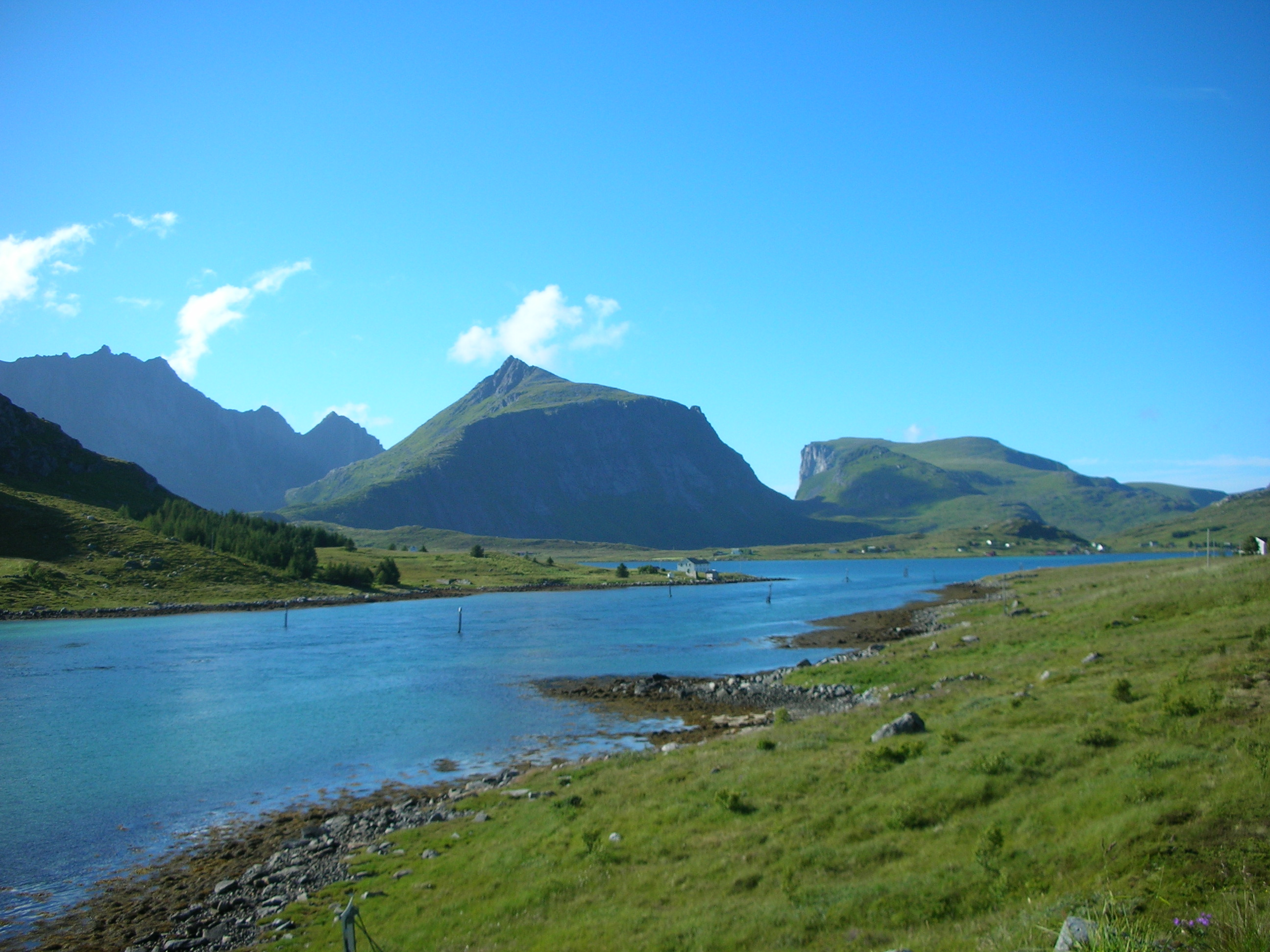 Photography of Sundstraumen. The sound devide the Lofotenislands Moskenesøya and Flakstadøya, at the end of this nothern archipelago in Norway.